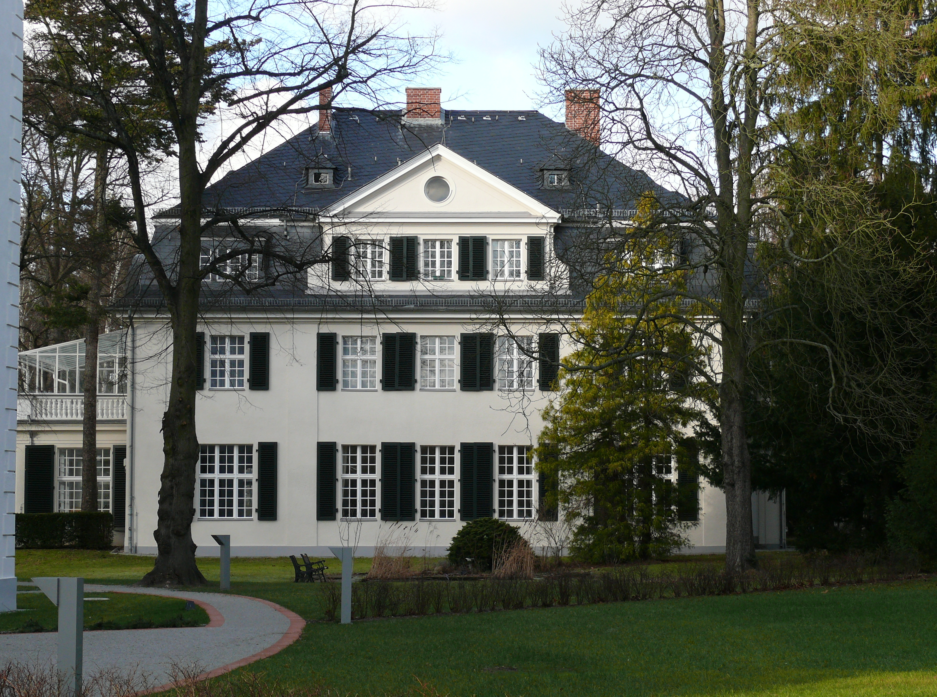 Berlin-Dahlem Hittorfstraße Haber-Villa